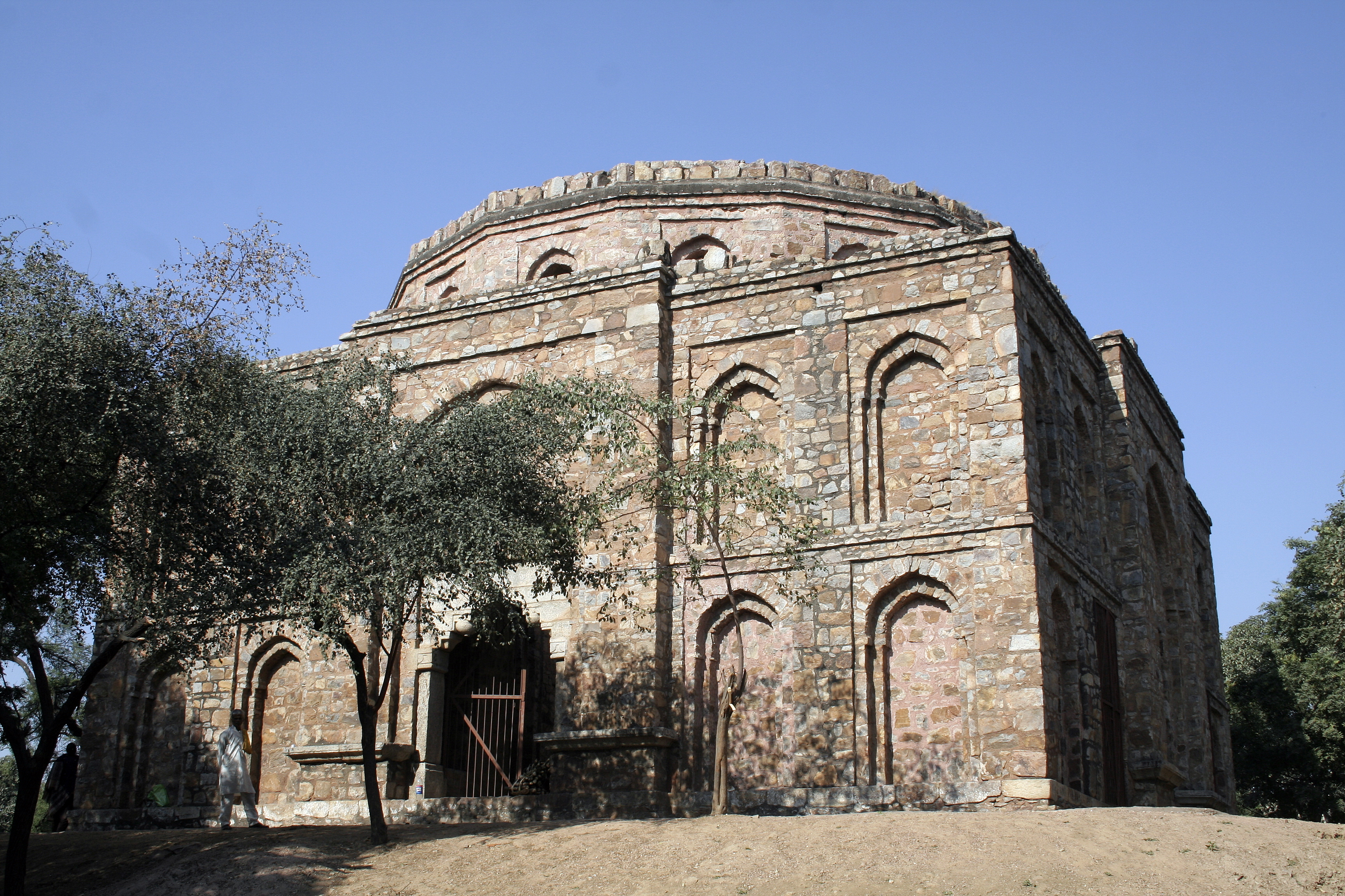 Munda Gumbad The roofless building is a massive structure of rubble masonry assignable to Lodi period (A.D. 1451-1526). The purpose of the building is unknown, probably it was intended for a tomb but was never finished.